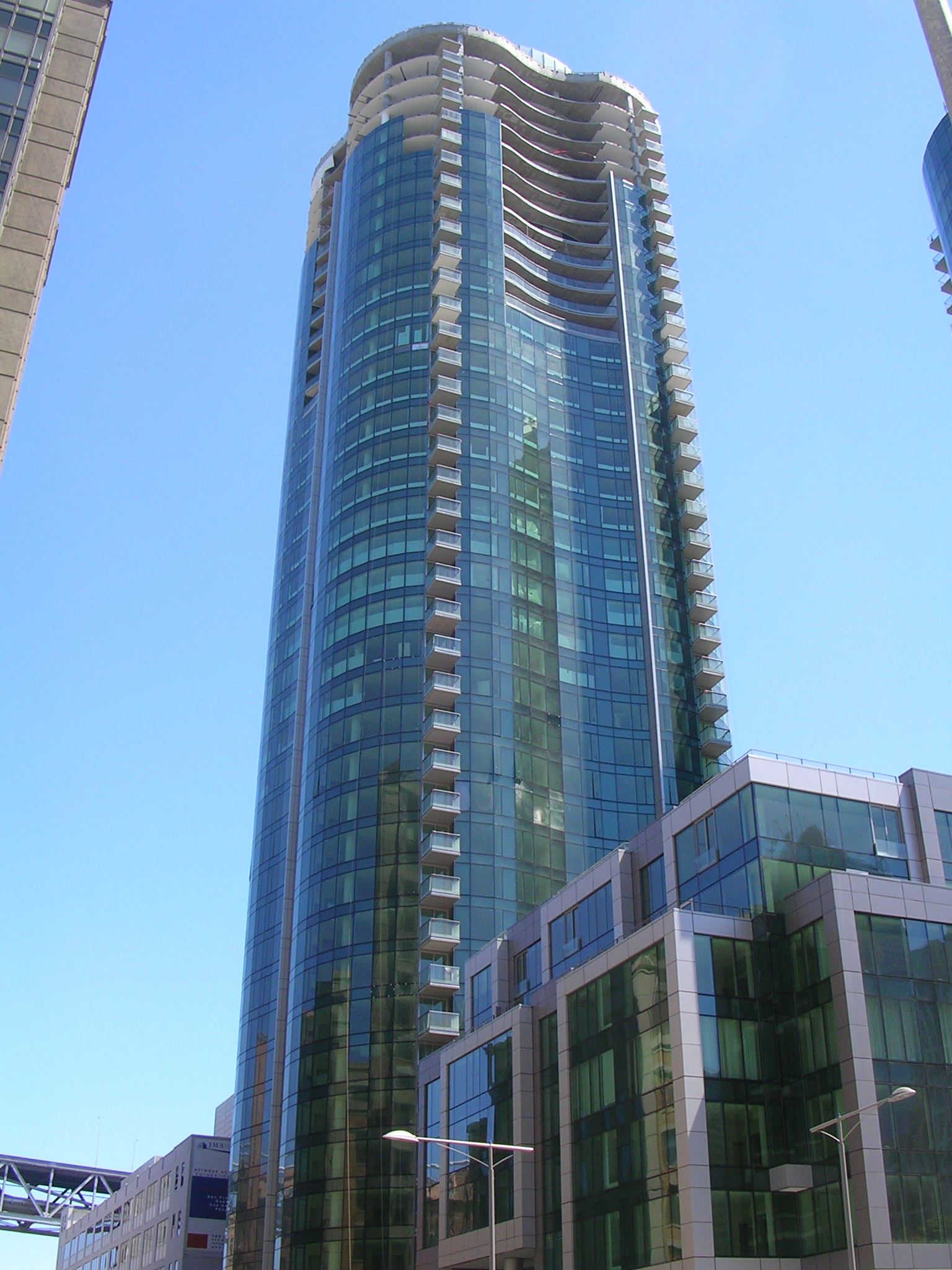 The Infinity (300 Spear Street) tower I and the Spear Street midrise (bottom right).